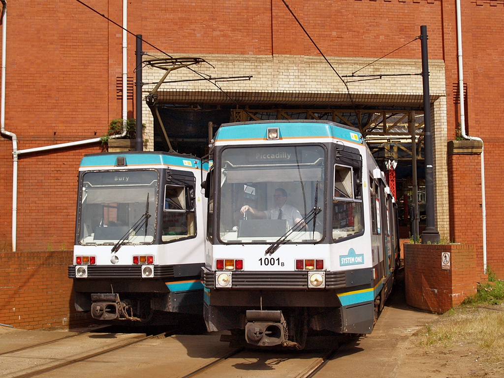 Greater Manchester Metrolink number 1001 SYSTEM ONE, an Ansaldo T68 (Phase 1) tram leaves Manchester Victoria station with a Bury to Manchester Piccadilly railway station service while number 1011 passes with a Bury bound service. Friday 25th July 2008